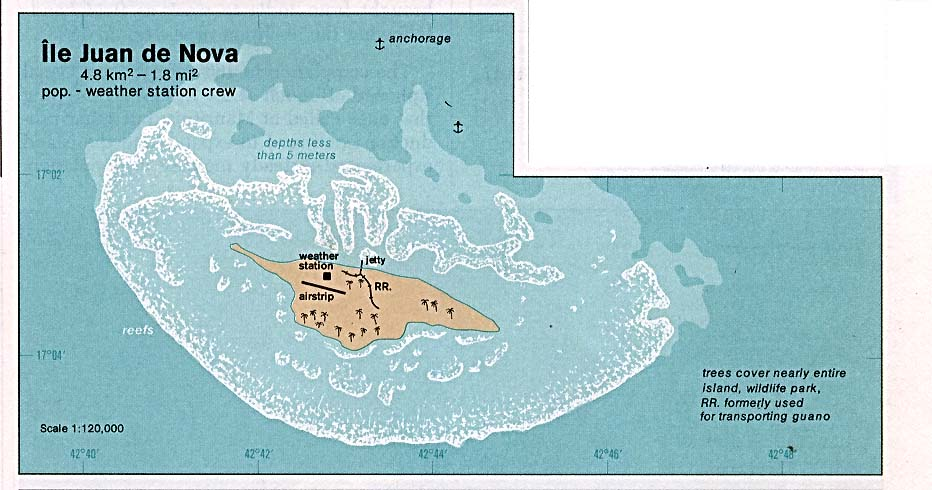 Map of Juan de Nova Island in the Indian Ocean